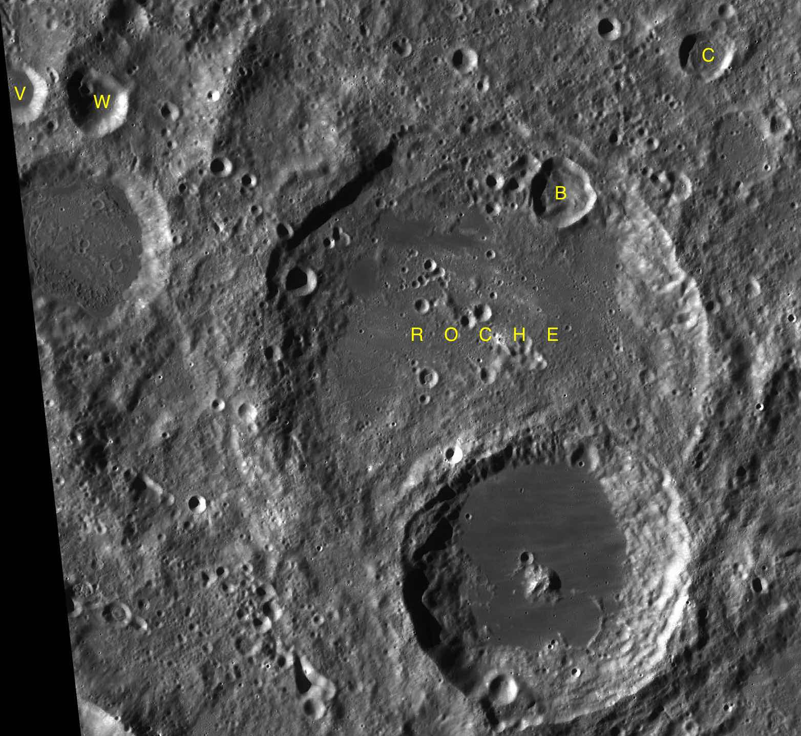 Part of the chart LAC-118 used for the presentation